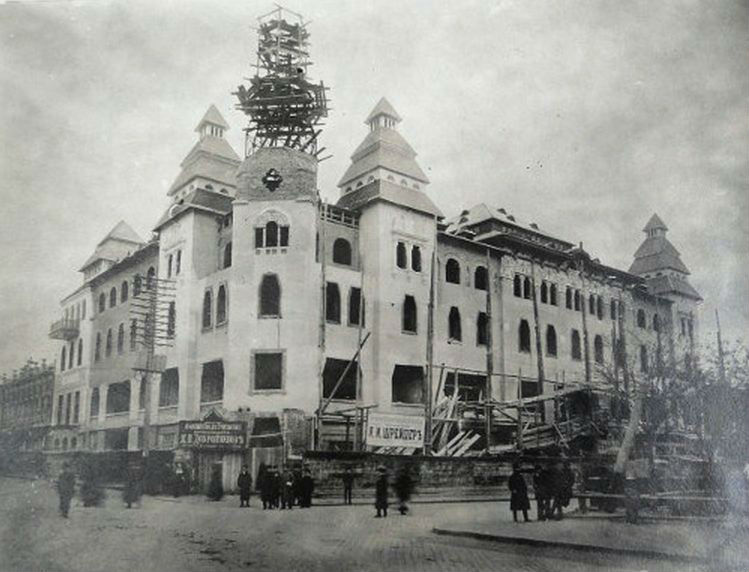 Фото начала 20 века.